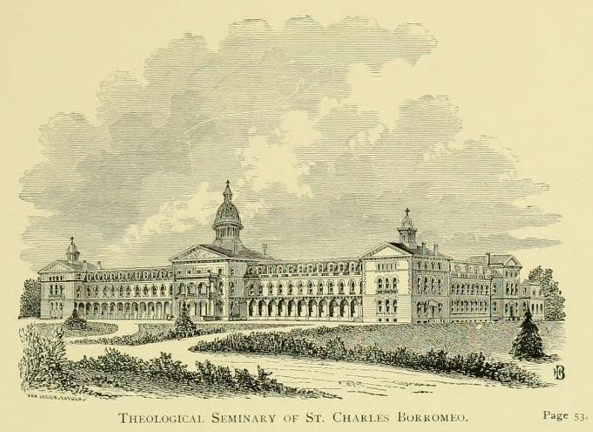 Engraving of St. Charles Borromeo Seminary, Overbrook, Pennsylvania.